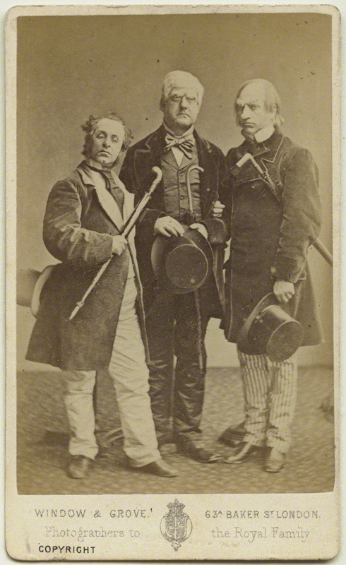 Edward Righton, W. J. Hill and Walter H. Fisher parodying Acton Smee Ayrton, Robert Lowe and William Ewart Gladstone in The Happy Land (1873)